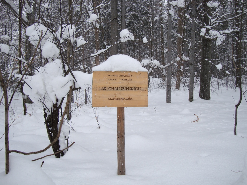 Natural monument (reserve) Las Chałubińskich, Zakopane; Poland